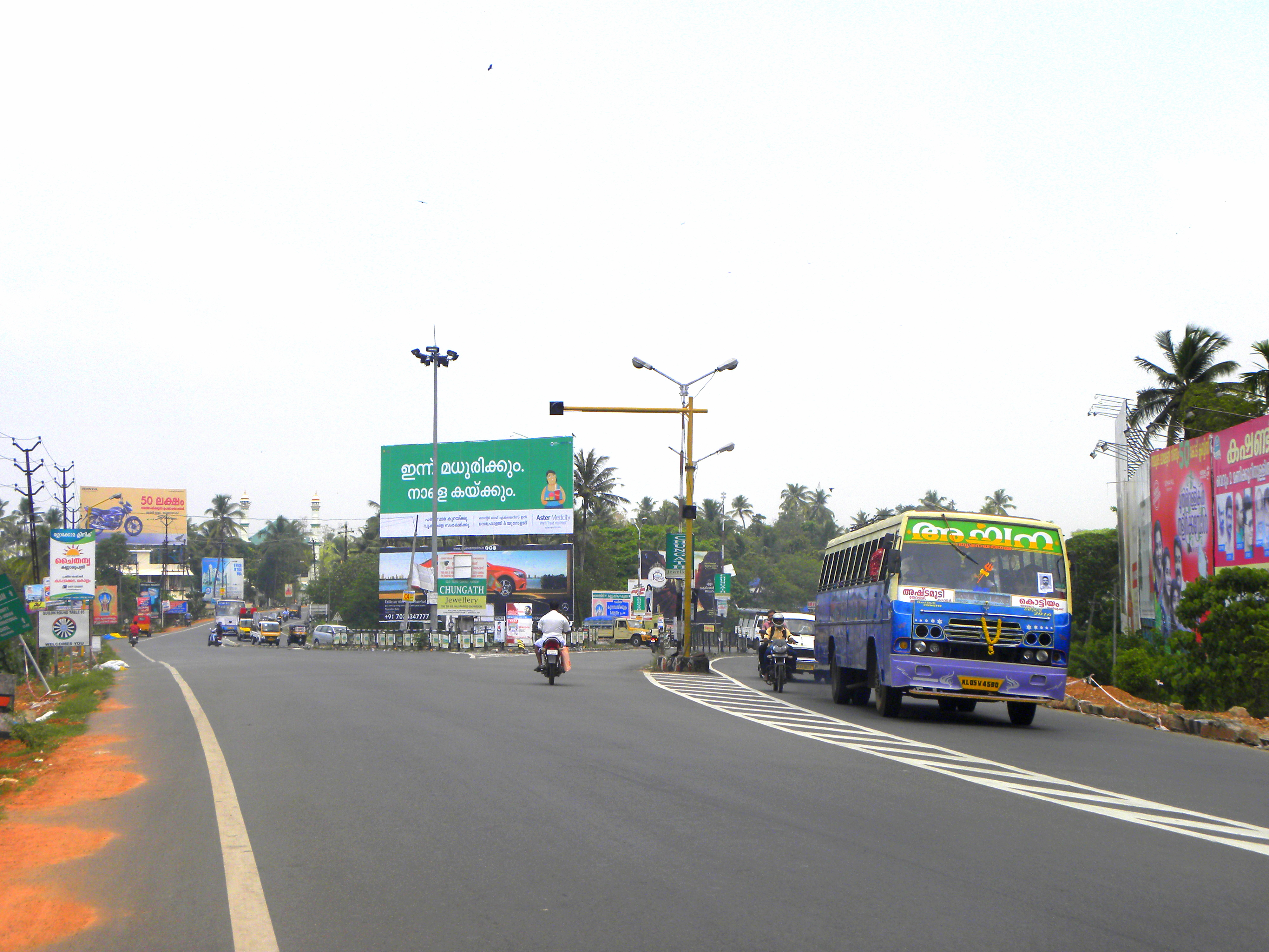 Mevaram is the border of Kollam city towards the south